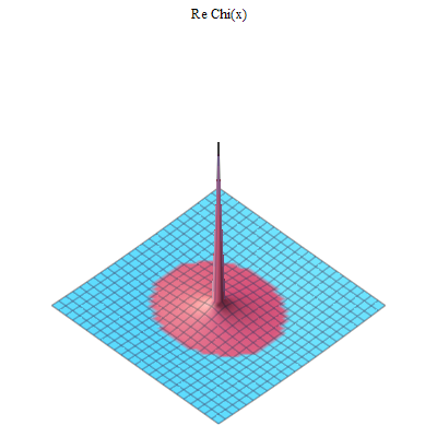 Chi(x) Re complex 3D plot